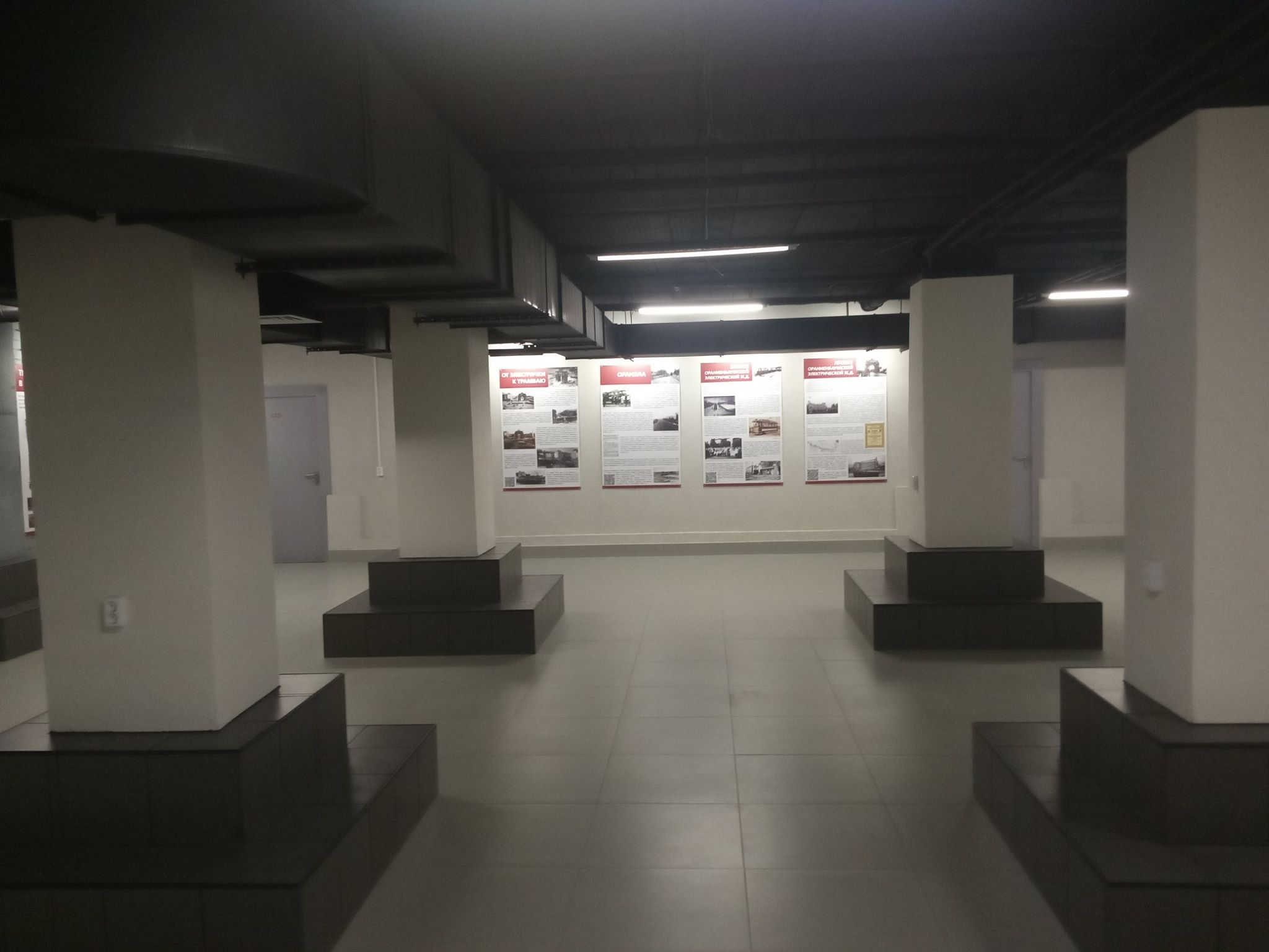 Hall with exposition about Oranela in a ground floor